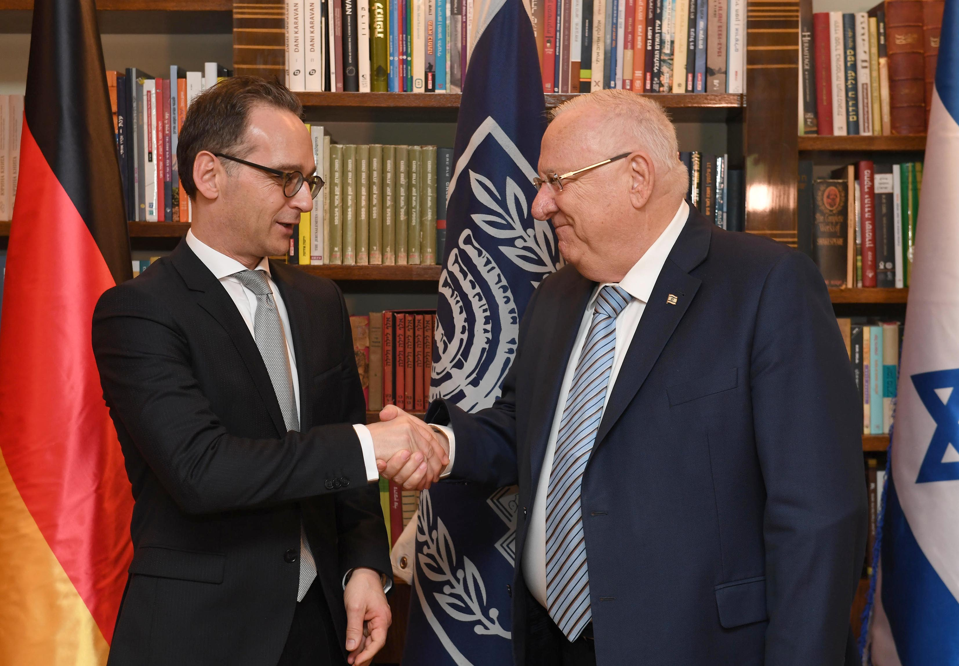 President of Israel, Reuven Rivlin, at a working meeting with German Foreign Minister, Heiko Maas, who visited Israel. Sunday, March 9, 2018. Photo Credit: Mark Neyman / GPO. Depicted people: Reuven Rivlin and Heiko Maas